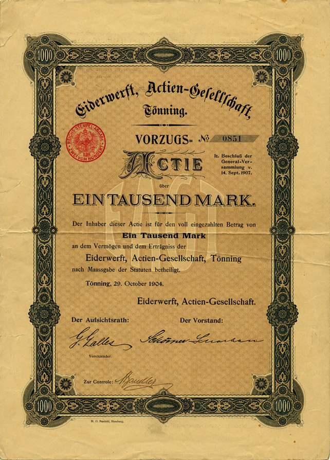 Eiderwerft_Actien_Gesellschaft_1909